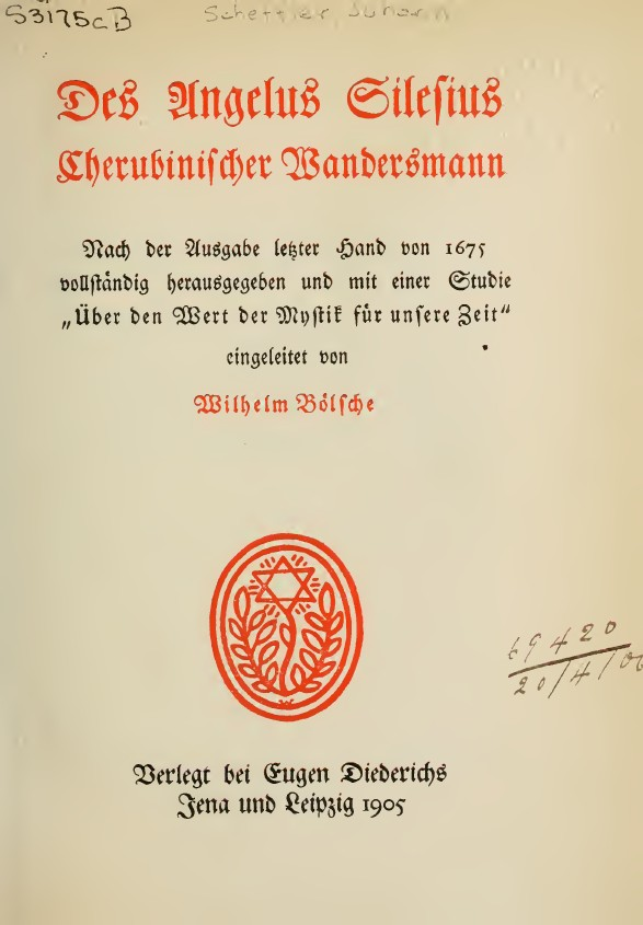 Title page